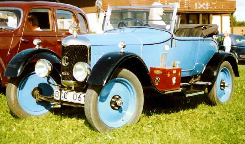 A.C. Royal Roadster 1924